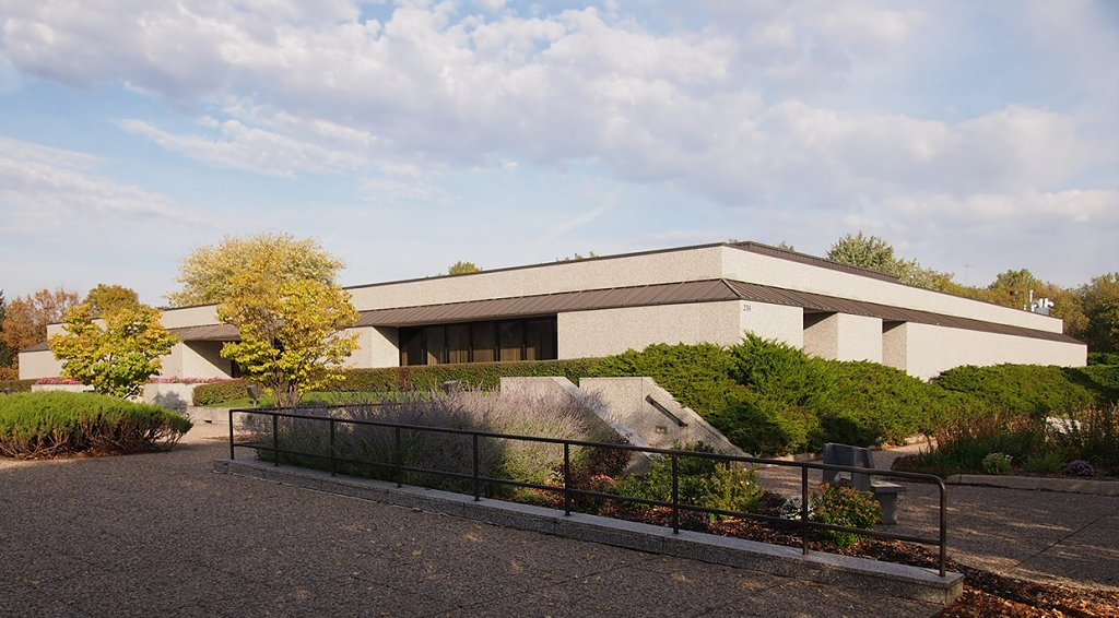 Stearns History Museum, 235 33rd Avenue South, St. Cloud, Minnesota, USA. Viewed from the southeast.